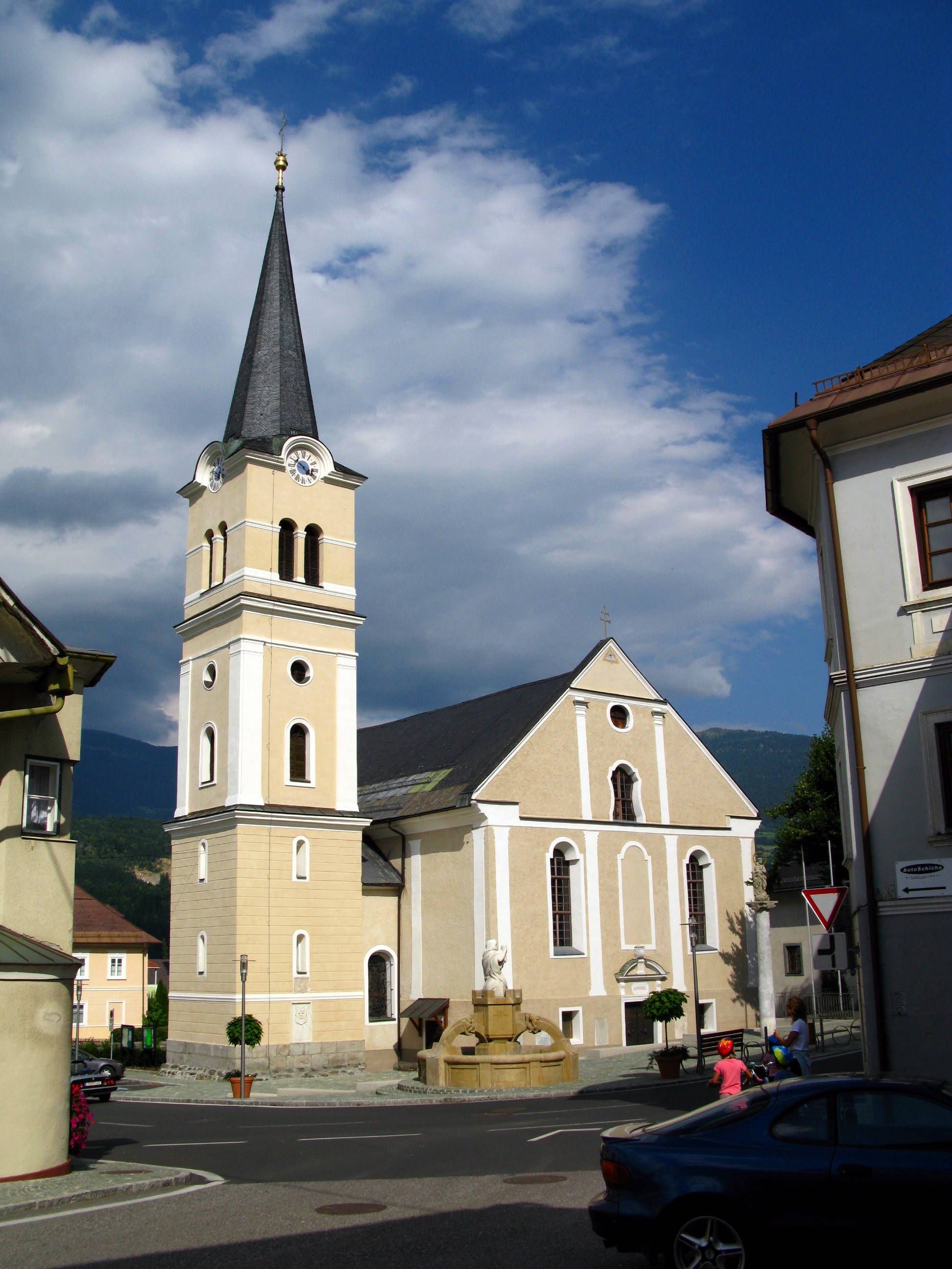 Parish church St. Paternianus in Paternion around 2008, district Villach-Land in Carinthia / Austria / EU. Southwest side of the parish church. In the background Mirnock Mountain.